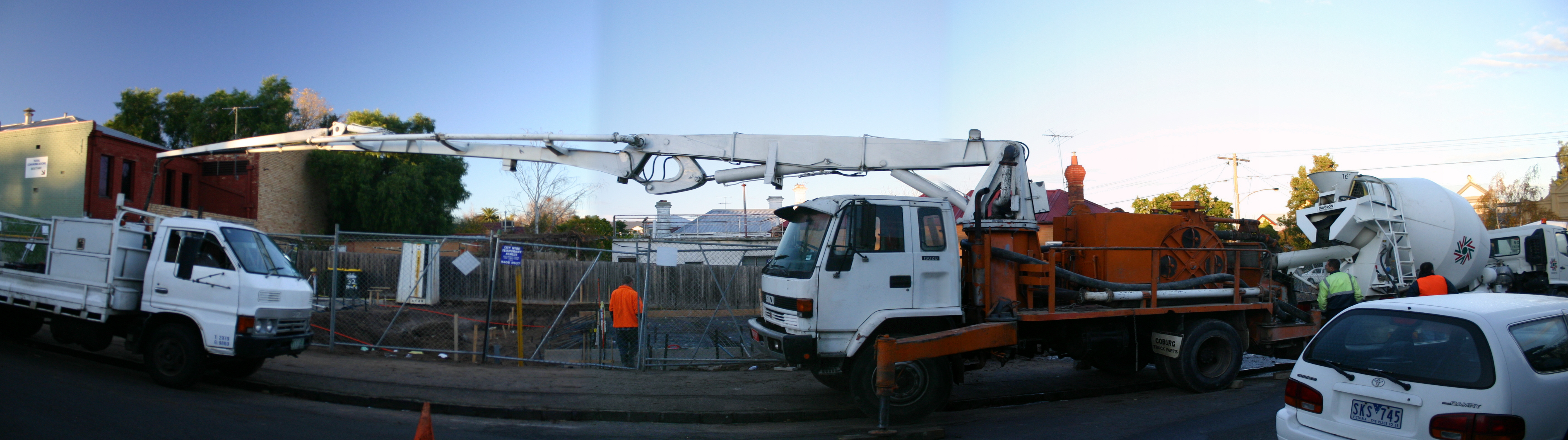 concrete pumping truck taking concrete from a concrete truck and pumping it over to where a concrete slab is being poured. ISUZU, Right side:FORWARD 3rd gen. vehicle,（There are a country and a region sold as F-series excluding a Japanese market, too.）/ Left side:ISUZU ELF, 3rd gen. vehicle,（It is called N-series or REWARD excluding a Japanese market.）